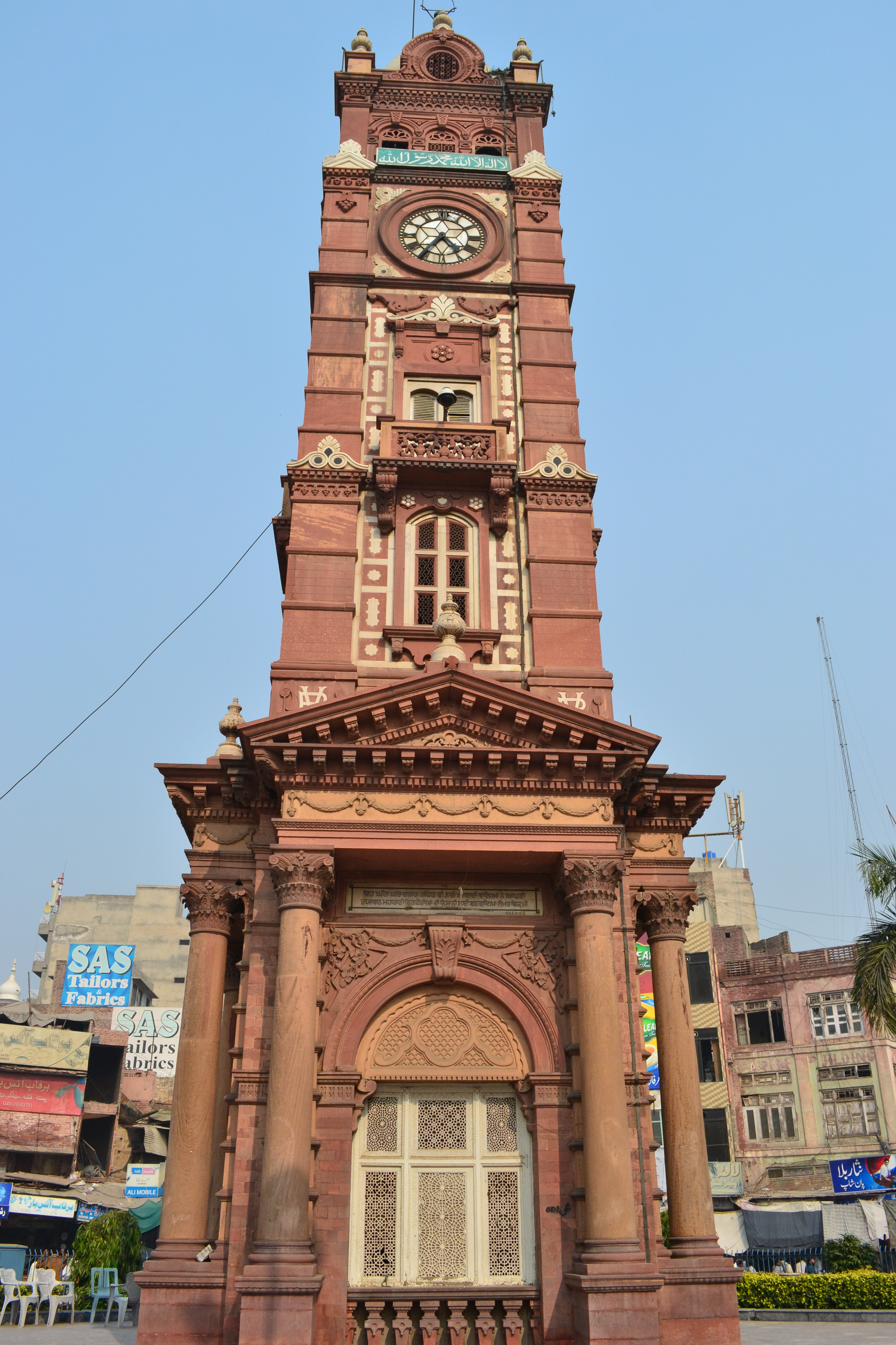 Kenta Kerr is a clock tower in Faisalabad Punjab.